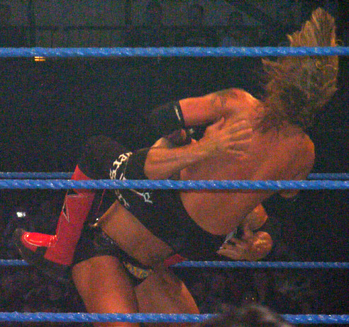 Edge & Batista @ Adelaide, South Australia 'Smackdown/ECW' house show on the 14th of June '08